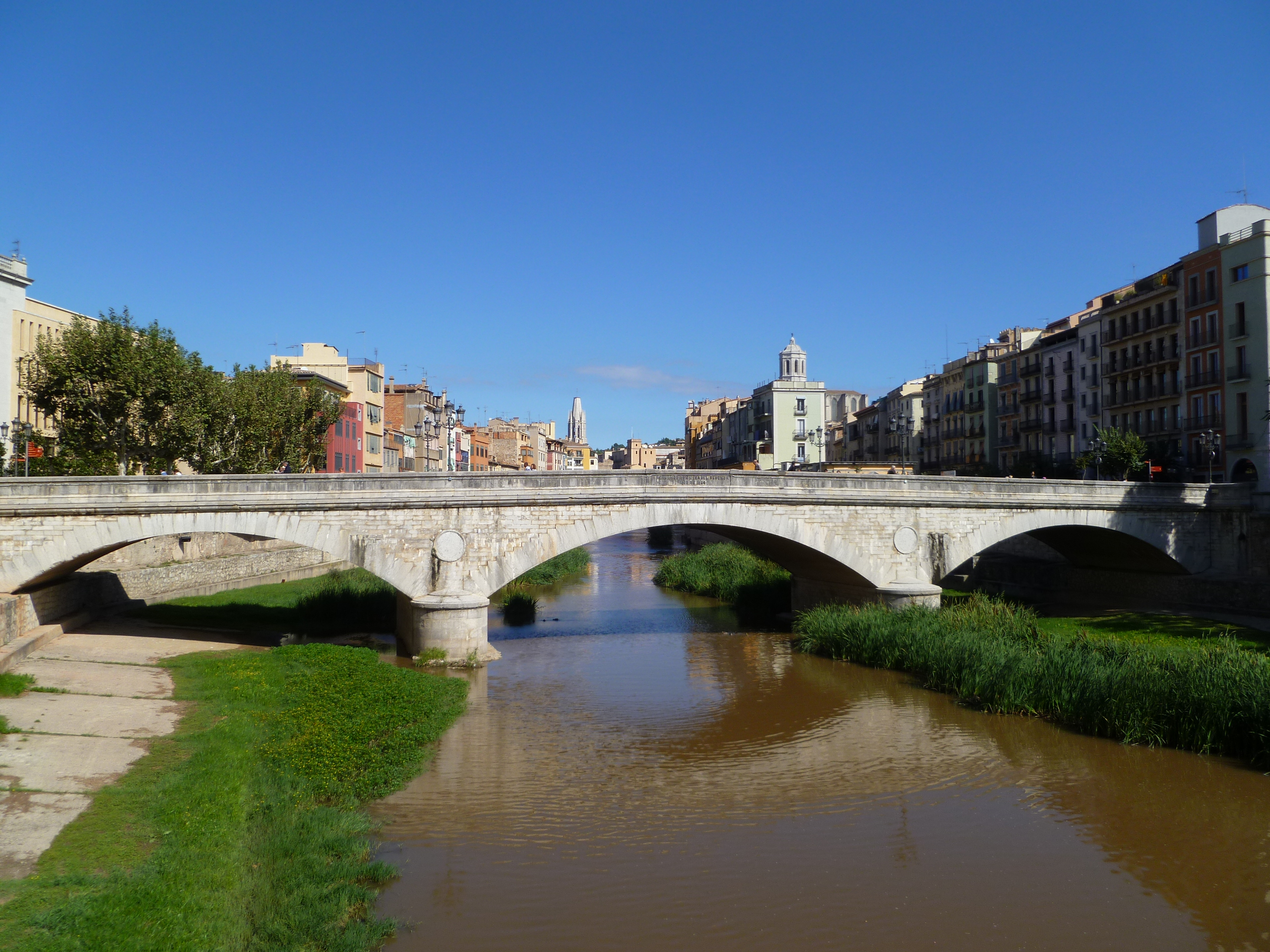 Pont de Pedra over the river Onyar, Girona, Spain